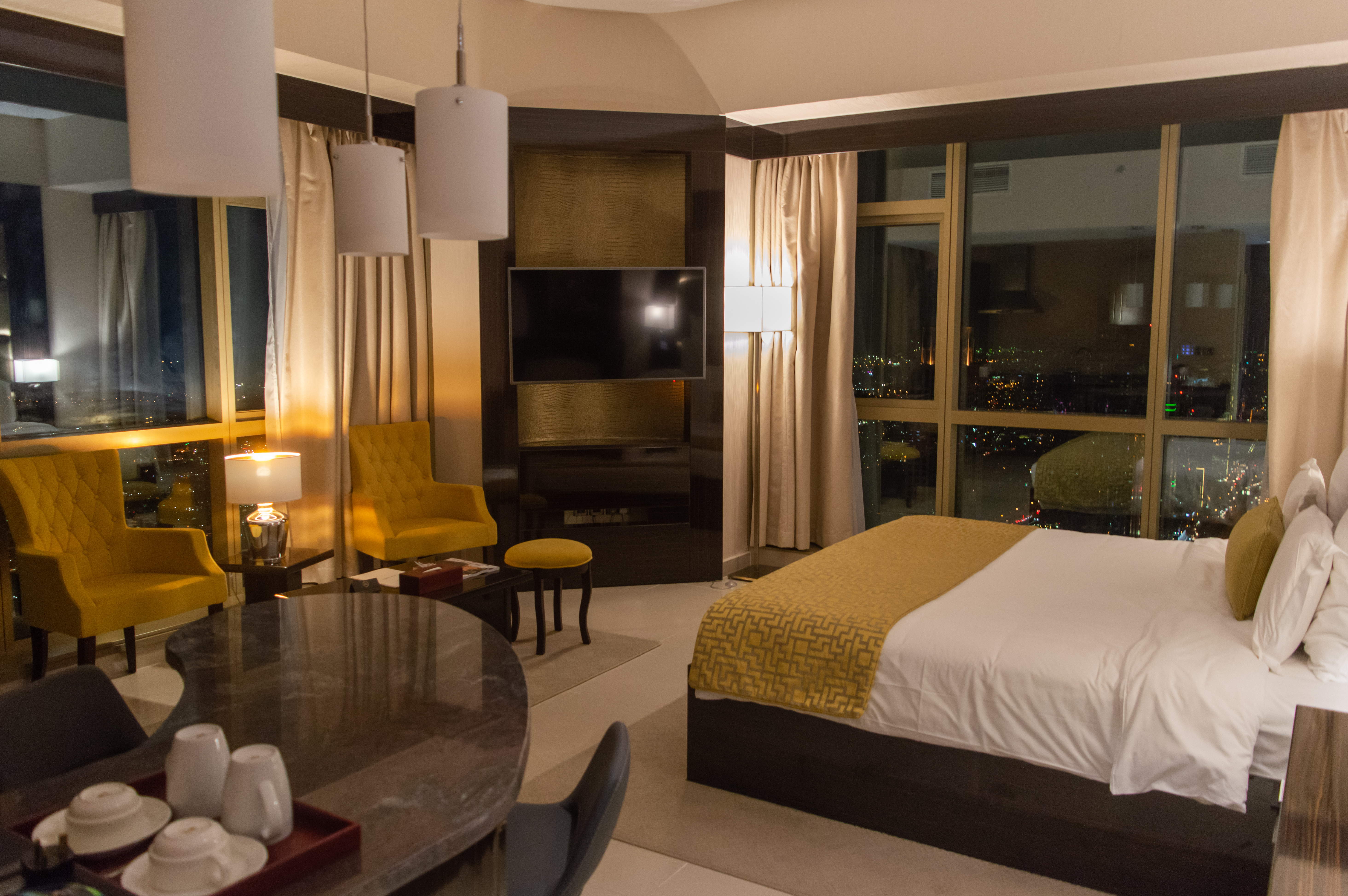 A "deluxe room" of the Gevora Hotel on the 68th floor (the room on the north corner).